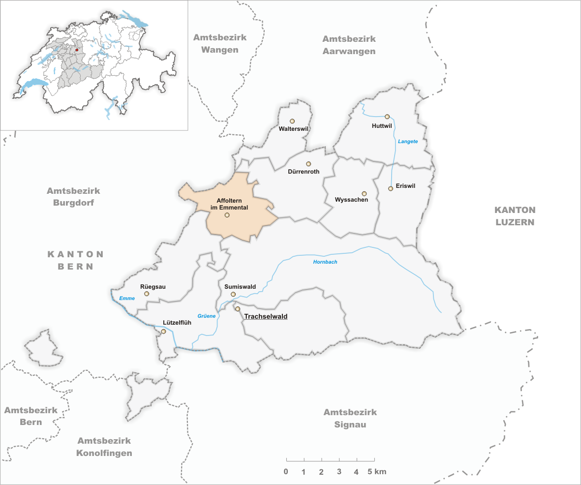 Municipality Affoltern im Emmental